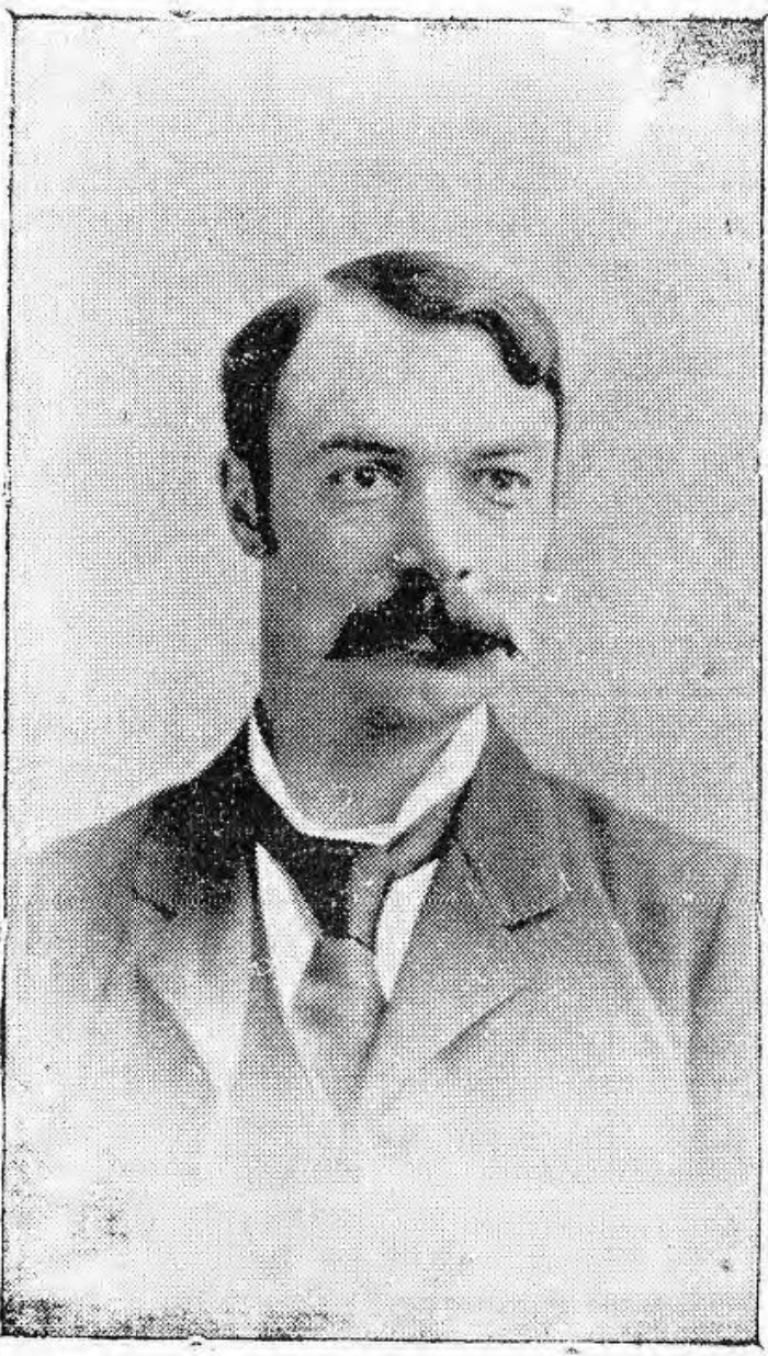 Portrait of Professor Alfred W. Hughes